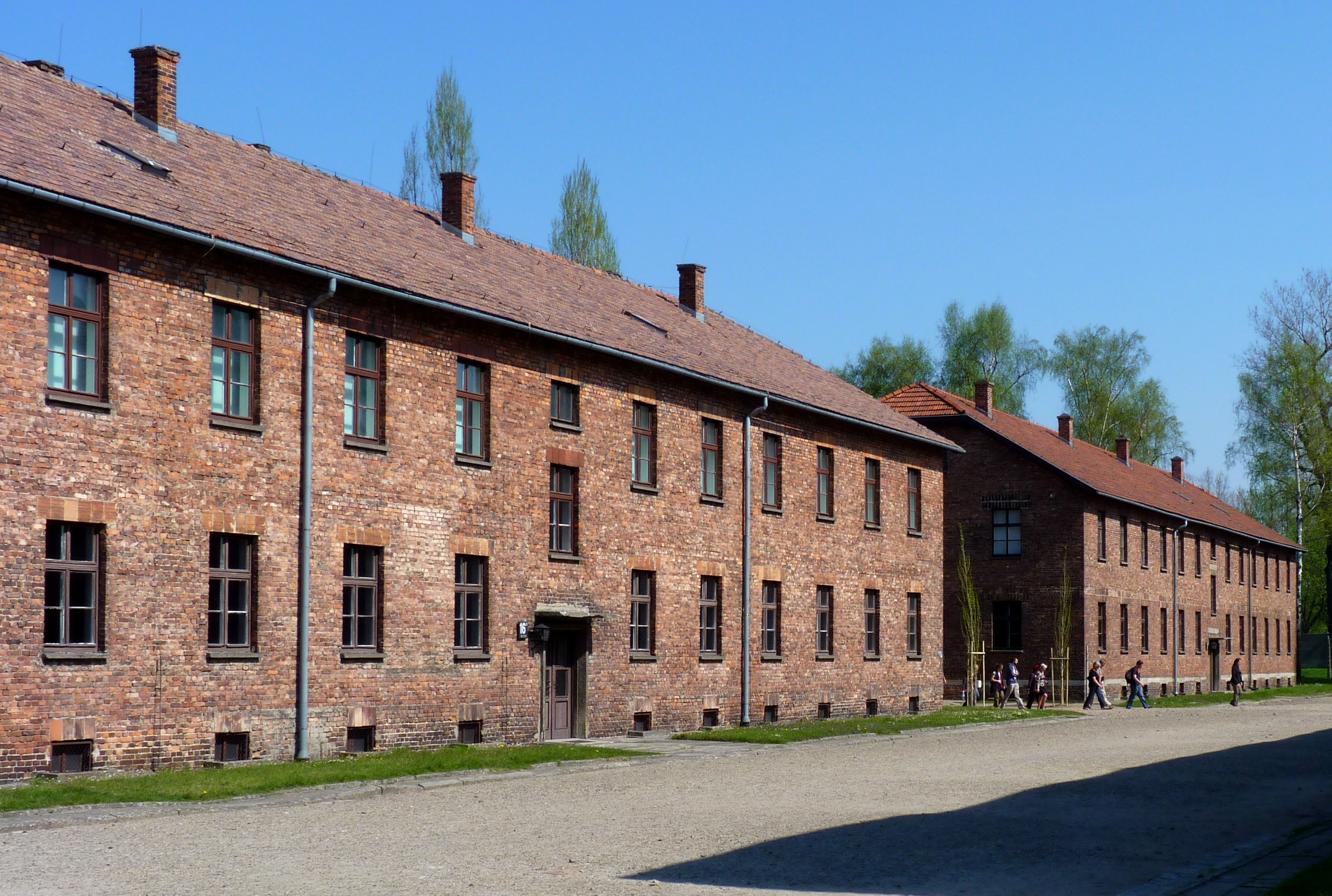 Barracks in Auschwitz concentration camp.